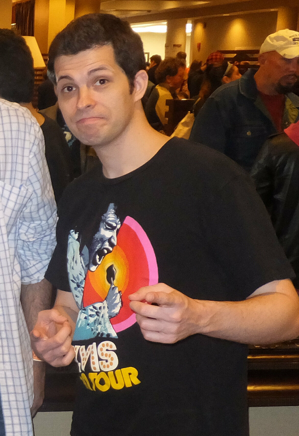 With Greg at the Chiller Theatre Expo at the Sheraton Parsippany Hotel in Parsippany, NJ, October 26, 2013. pictured (left to right): Rob, "The Angry Video Game Nerd" James Rolfe, Greg, and Mike Matei